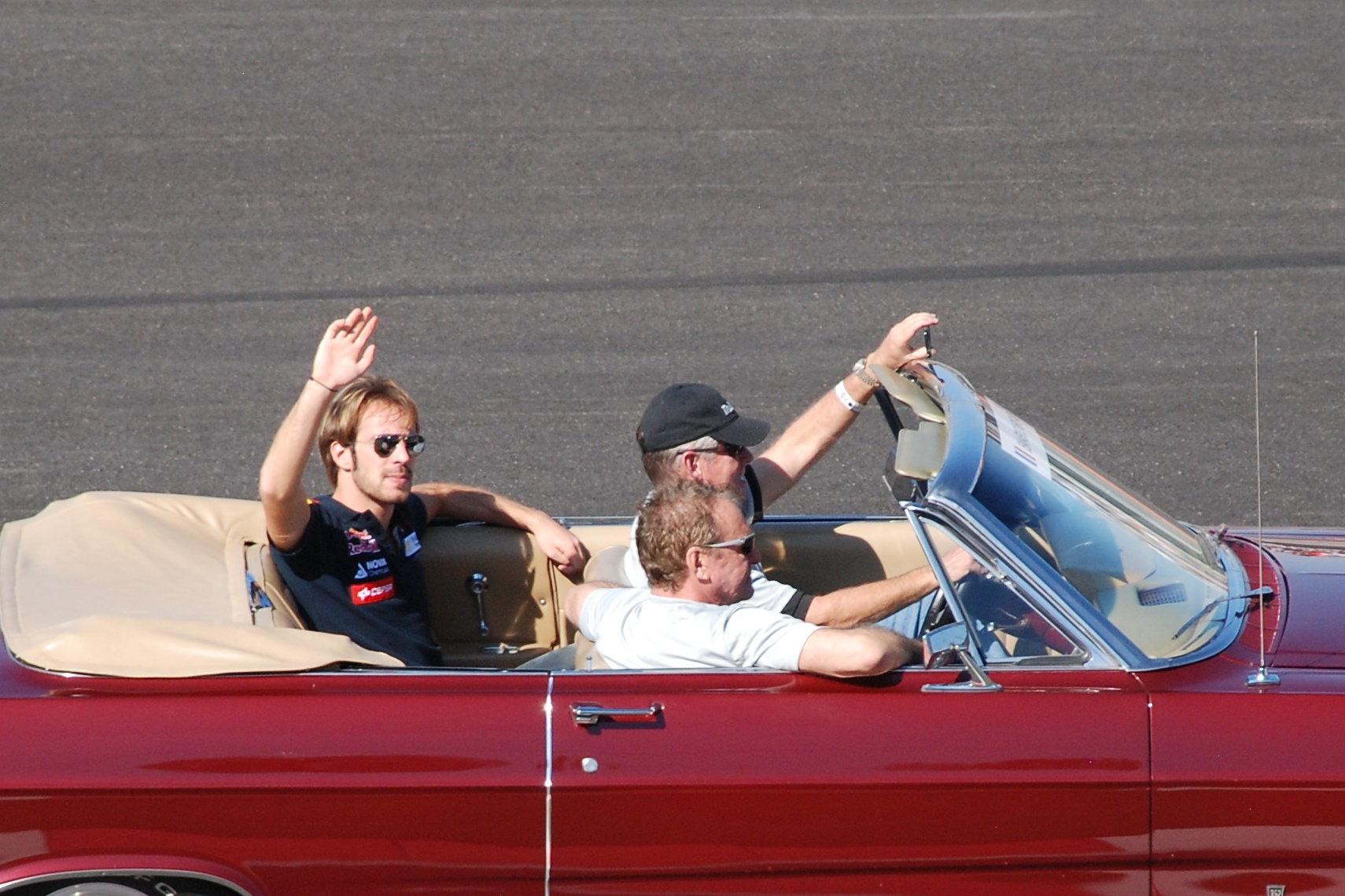 Jean-Éric Vergne, United States Grand Prix, Austin 2012